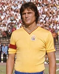 Ștefan Sameș as captain of the national team